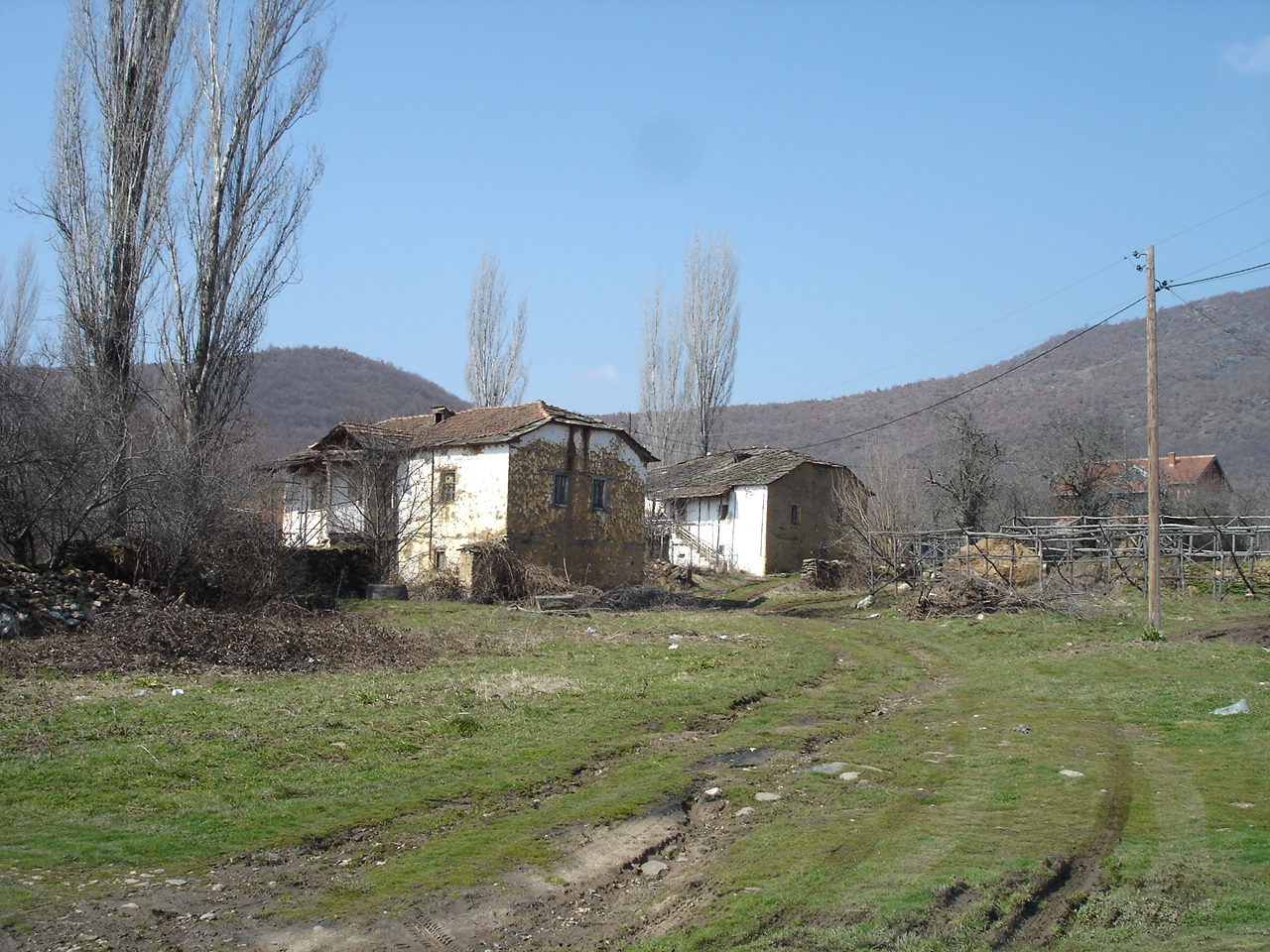 village of Rilevo, Dolneni Municipality, Macedonia